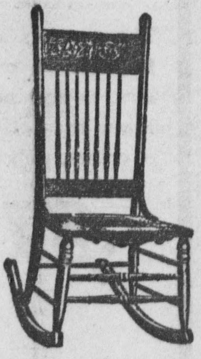 in 1904, this model of Rocking chair was on sale at Standard House Furnishing of Tacoma, WA, for $0.90 (even though it was "well worth $1.50").